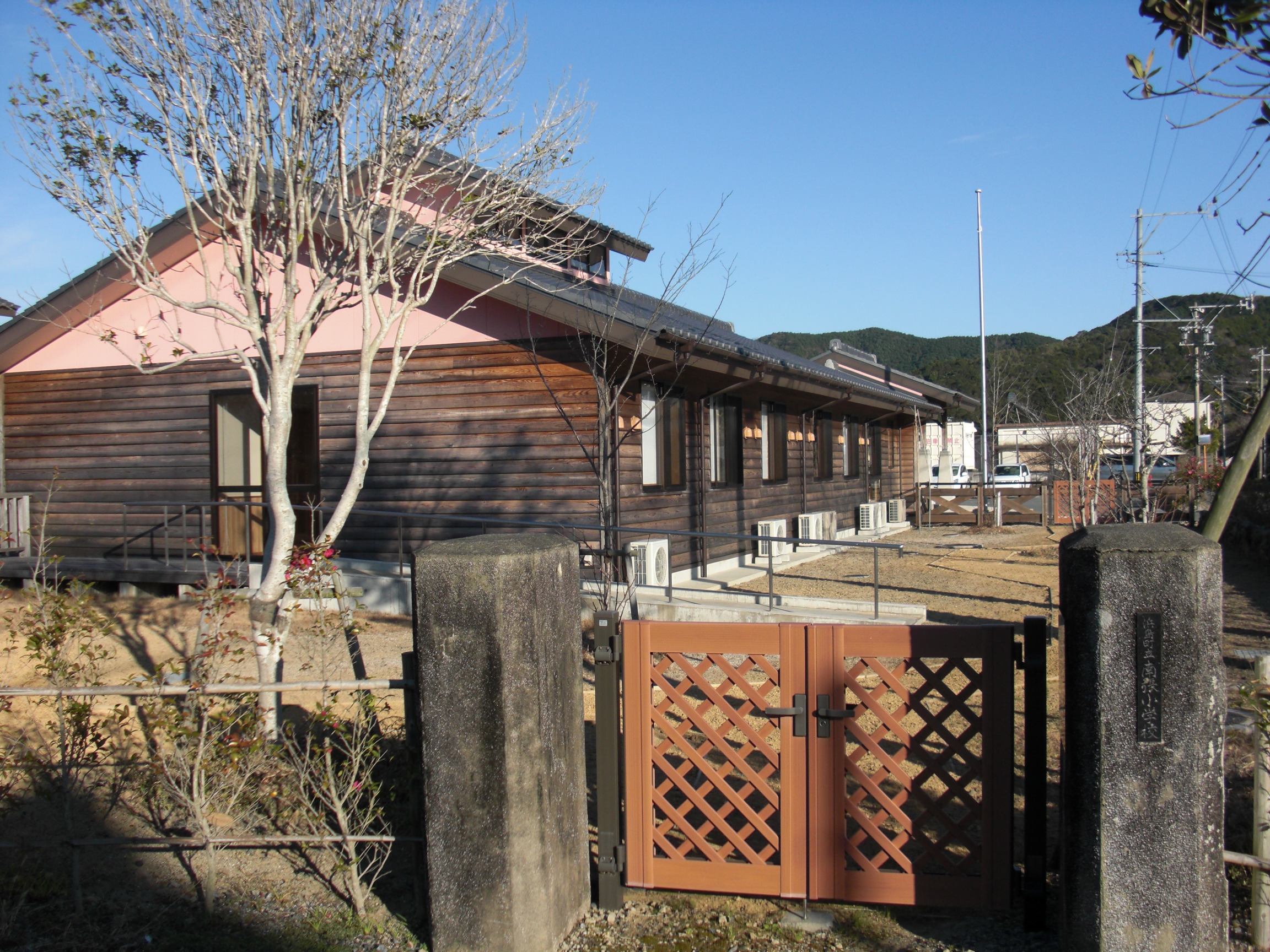 This was Hamajima Town Nambari Elementary School, which is located in Shima, Mie, Japan. This building is used for the welfare center "Hamajima Community-based Care Center Silver Care Hoju-en" now.